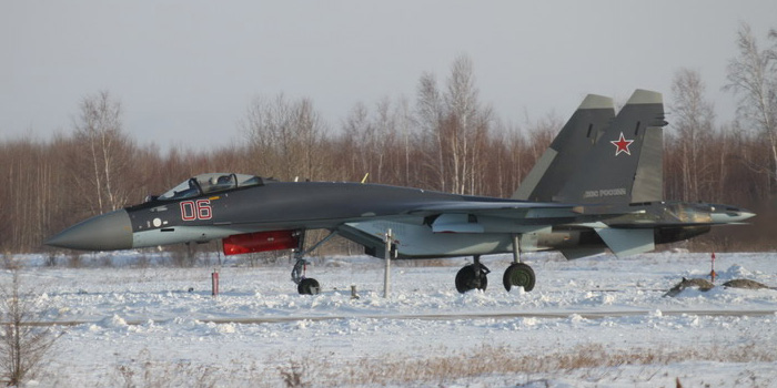 New Su-35S of the Russian AirForce